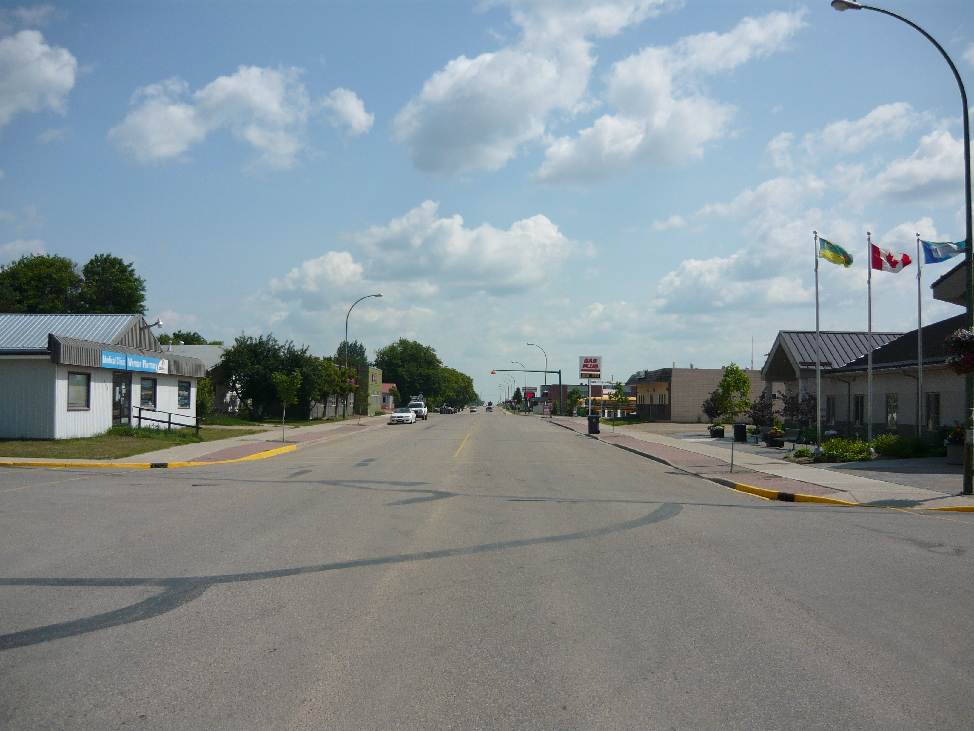 Looking eastward on Central Street (from intersection of Central Street and 5th Avenue) in Warman, Saskatchewan.